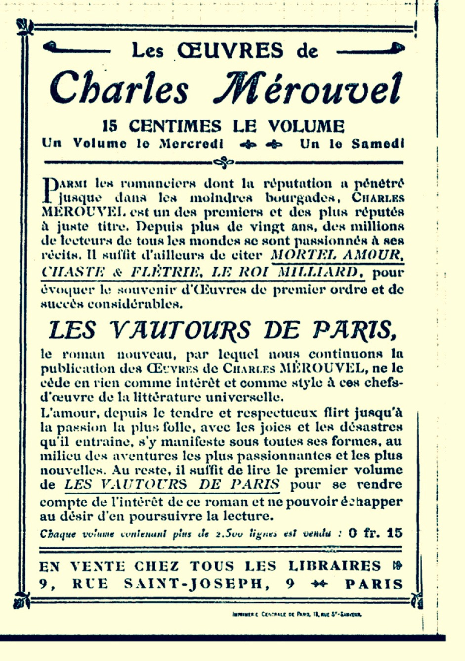 JDD55